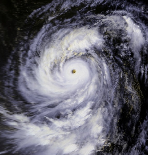 Typhoon Bess from NOAA-7. Inventory ID: NSS.GHRR.NC.D82210.S0301.E0453.B0565657